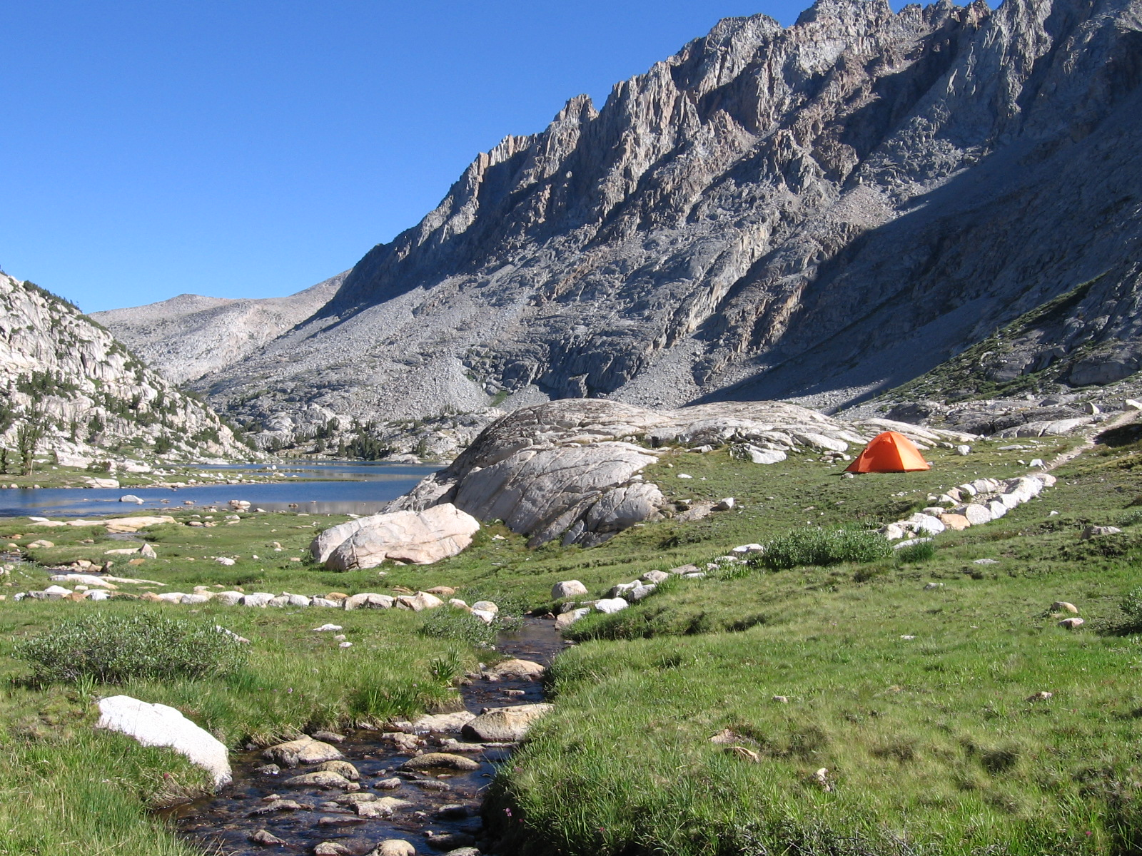 A hiker's tent on the PCT